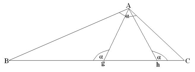 Generalization of Pythagorean theorem.